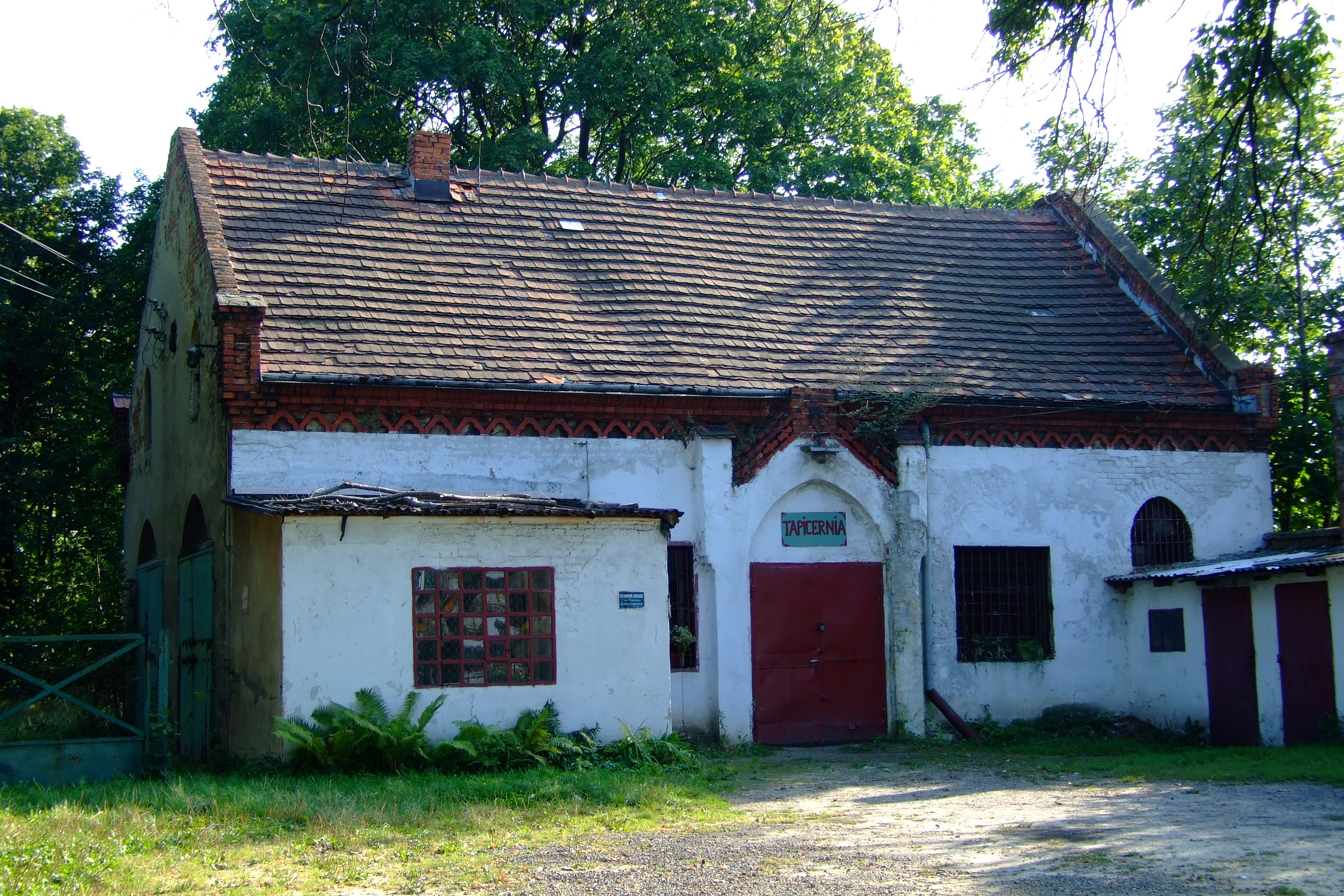 Jewish cemetery in Pyskowice/Poland